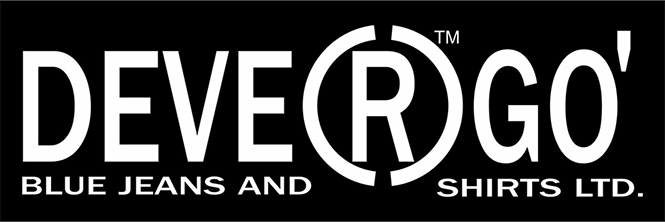 Devergo trademark logo.